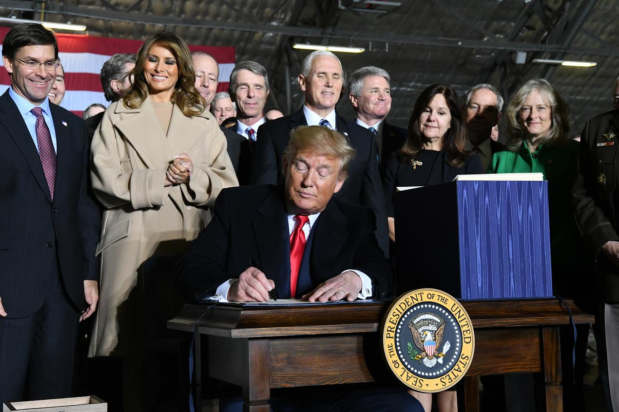 President Donald Trump signs S.1790, the National Defense Authorization Act for Fiscal Year 2020 as senior leaders look on, Friday, Dec. 20, 2019 At Joint Base Andrews. The act authorizes a budget that supports the U.S. armed forces and postures the Air Force to meet the requirements of the National Defense Strategy. (U.S. Air Force photo by Airman 1st Class Spencer Slocum)